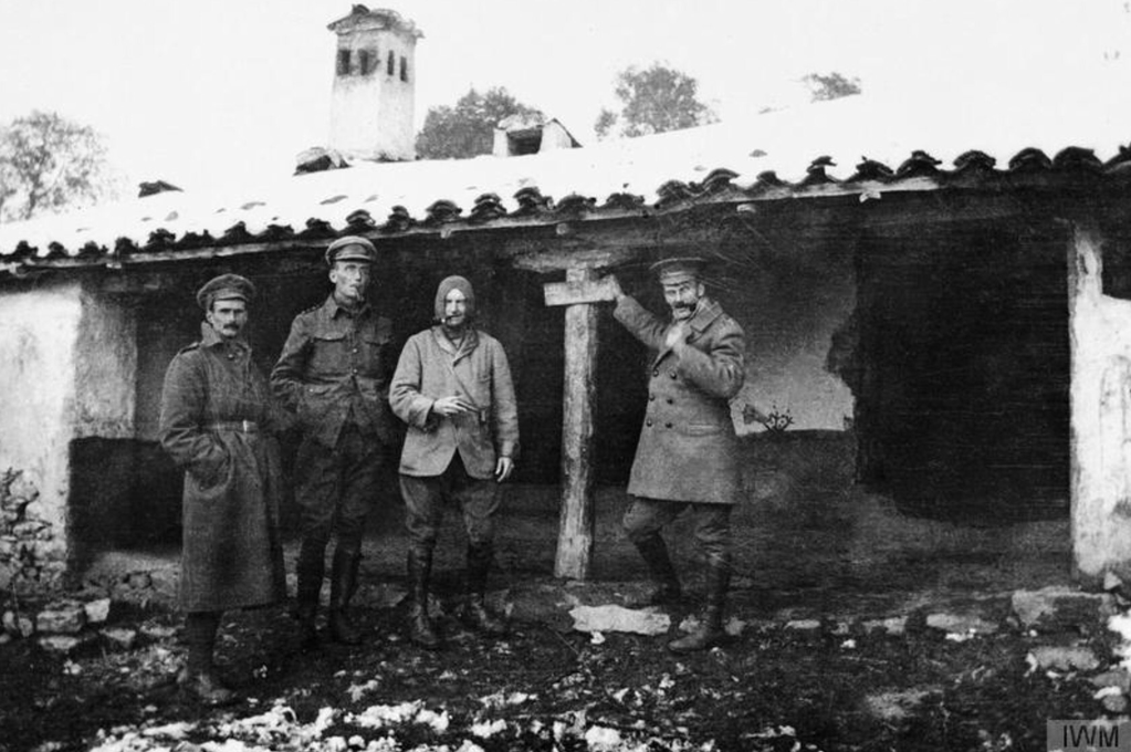 Officers of the 5th Connaught Rangers outside a house in Tatarli.